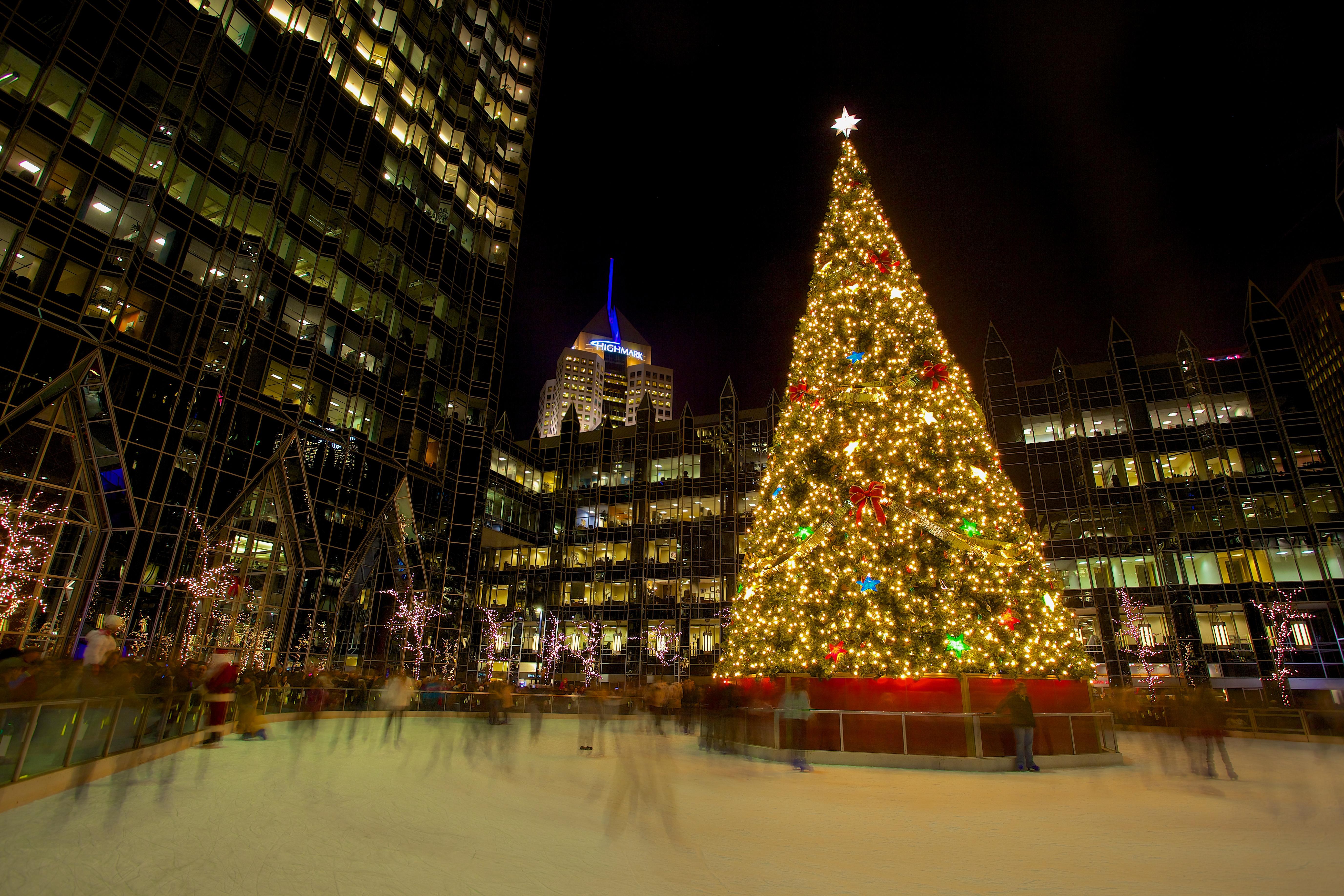 2012 Light Up Night